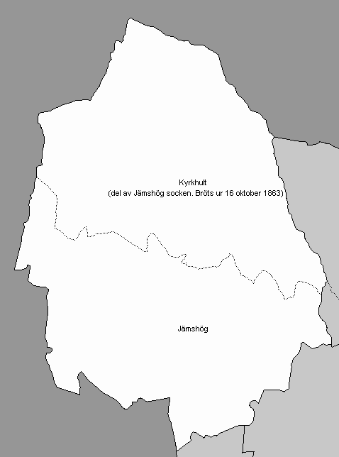 Old municipalities in Olofström